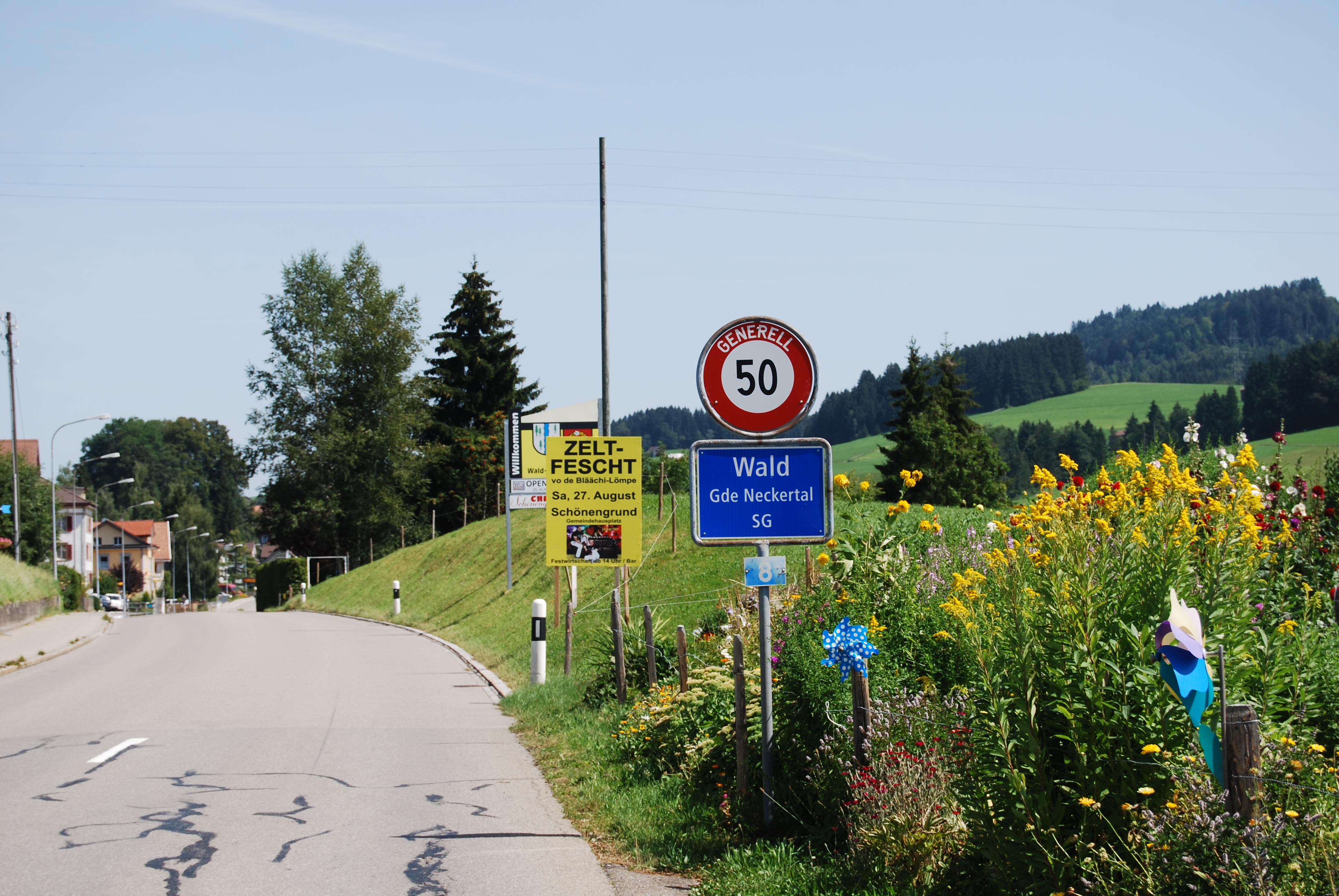 Wald, municipality of Neckertal, canton of St. Gallen, Switzerland